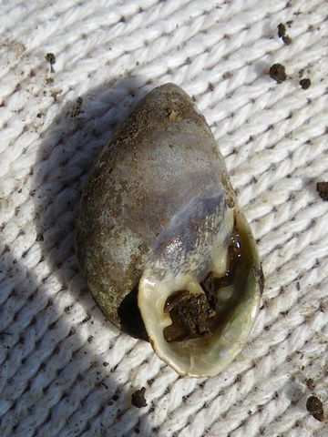 Pythia cecillei (Philippi,1847)